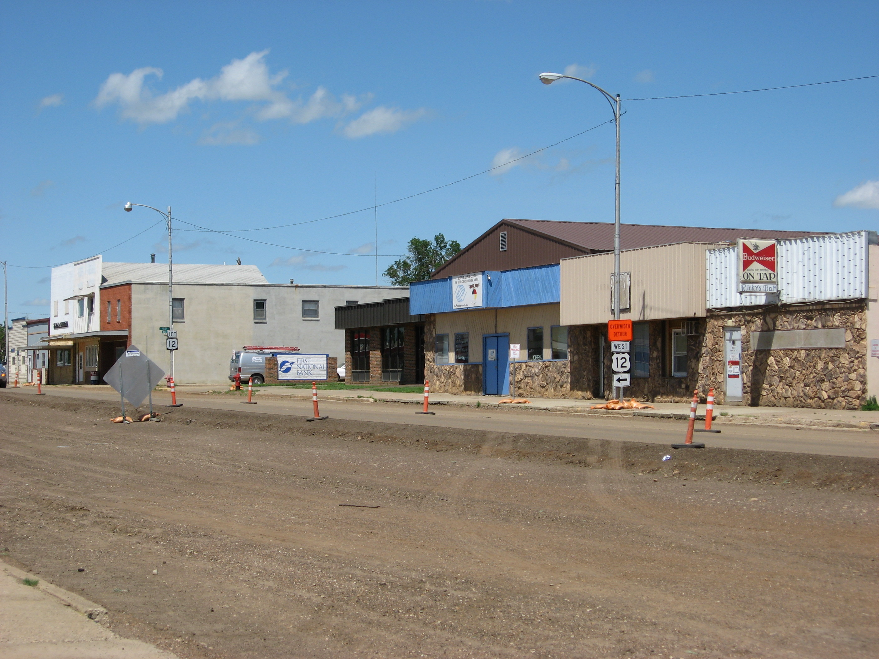 A picture of Main Street in McLaughlin, SD.